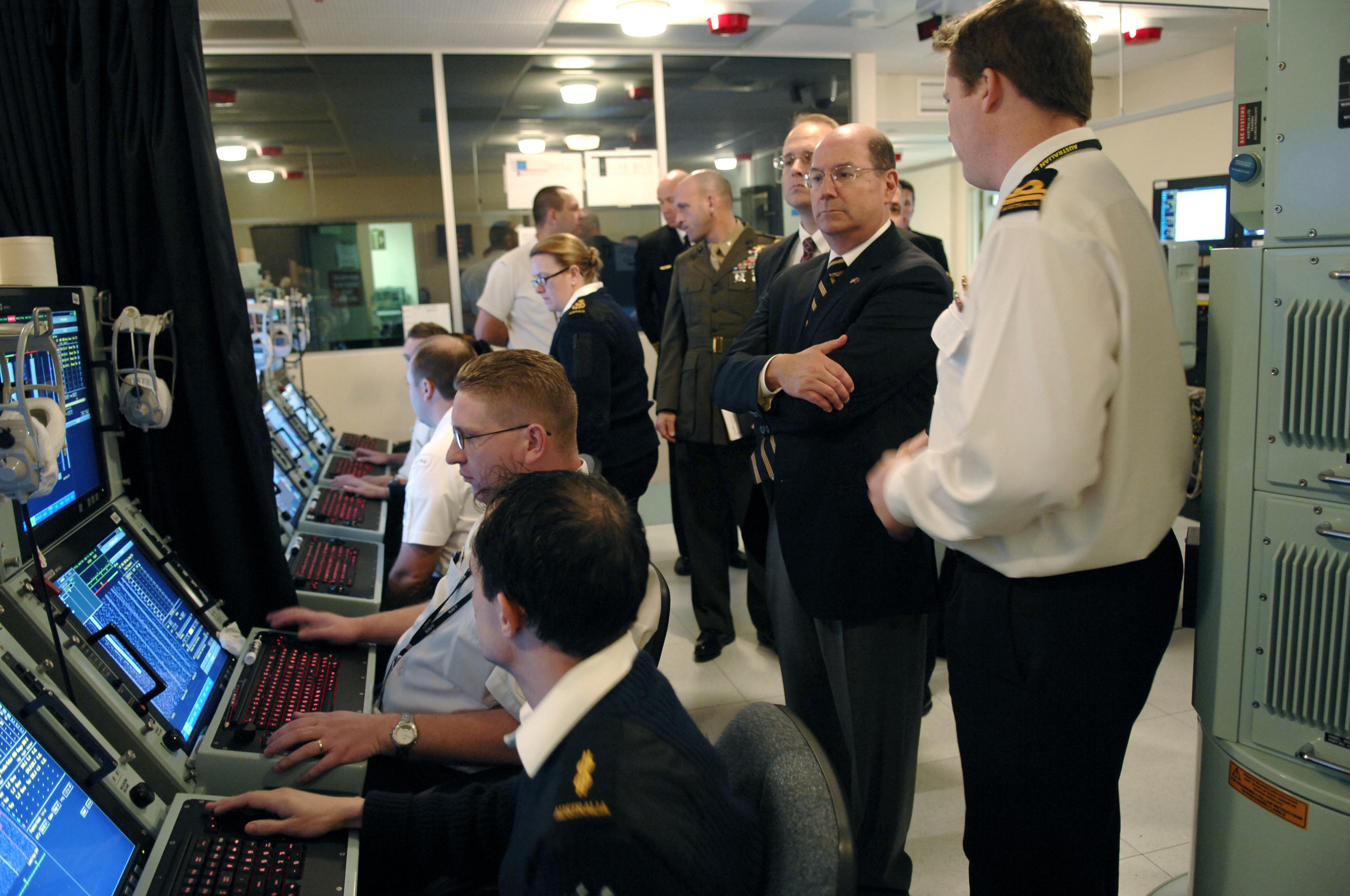 070817-N-3642E-208 GARDEN ISLAND, Australia (Aug. 17, 2007) - Secretary of the US Navy (SECNAV), the Honorable Dr. Donald C. Winter, tours the Royal Australian Navy's Submarine Force Element Group Headquarters to get a first-hand look at the Collins Weapon System Trainer Facility, located at HMAS Stirling in Rockingham, Western Australia.